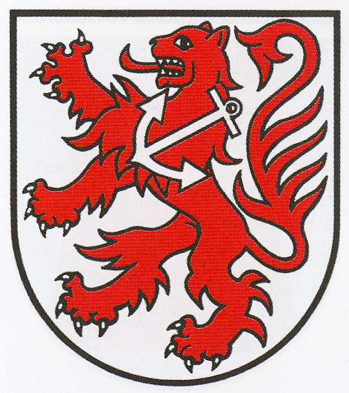 Coat of Arms of Neustadt, Part of Braunschweig